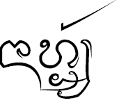 Lanna script – Na Noi is a district (Amphoe) in Nan Province, northern Thailand.